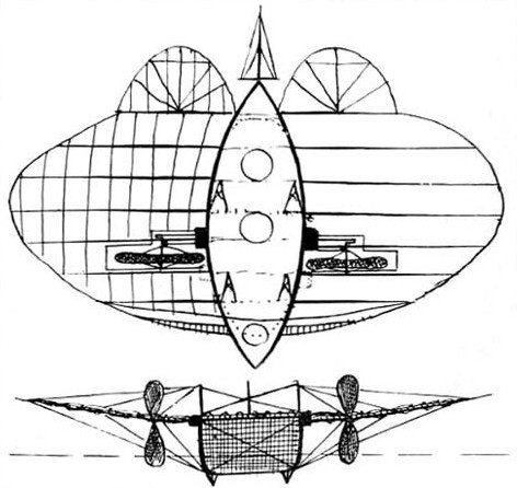 1873 sketch of an amphibian airplane by Alphonse Pénaud (with Paul Gauchot). The project was to be patented in 1876 after being widely modified, although the general flying wing amphibian configuration was to be kept the same. The aircraft was never actually built.